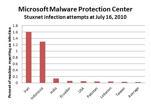 Stuxnet saturation